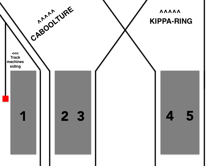 A trackplan of Petrie railway station, in Queensland, Australia.